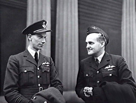 United Kingdom: London. 9 November 1943. Outside Buckingham Palace after an investiture is Wing Commander (Wing Cdr, later Group Captain [Gp Capt]) John Raeburn Balmer OBE, DFC, RAAF of Melbourne, Vic, Commanding Officer of Lancaster No 467 Squadron, RAAF Bomber Command (right), and Squadron Leader D. A. Green DSO DFC, RAF, Devon, UK. Grp Cpt Balmer was lost on operations over Belgium on May 11, 1944. He is buried in the Heverlee War Cemetery near Brussels.